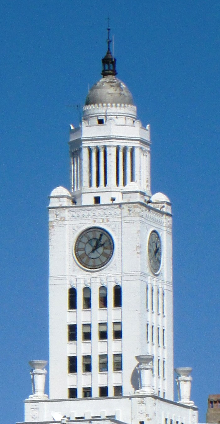 The Tower of the Inquirer Building, which was built in 1924 as the Elverson Building, at 400-440 N. Broad Street between Callowhill and Spring Garden Streets in the Callowhill neighborhood of Philadelphia, was designed by Rankin, Kellogg & Crane and Arey Roydhouse in a combination of the Art Deco, International and Beaux Arts styles. Built as the headquarters of the Philadelphia Inquirer by James Elverson Jr., and named in honor of his father, James Elverson, in 1957 Walter Annenberg bought the Philadelphia Daily News and merged the two newspapers. operations in the building. In 2011, the building was sold to a developer who intended to convert it into a mixed use complex of retail stores, offices and apartments, and the two newspapers moved into the old Strawbridge & Clothier department store at 801 Market Street. In 1966 the Inquirer Building was added to the National Register of Historic Places.